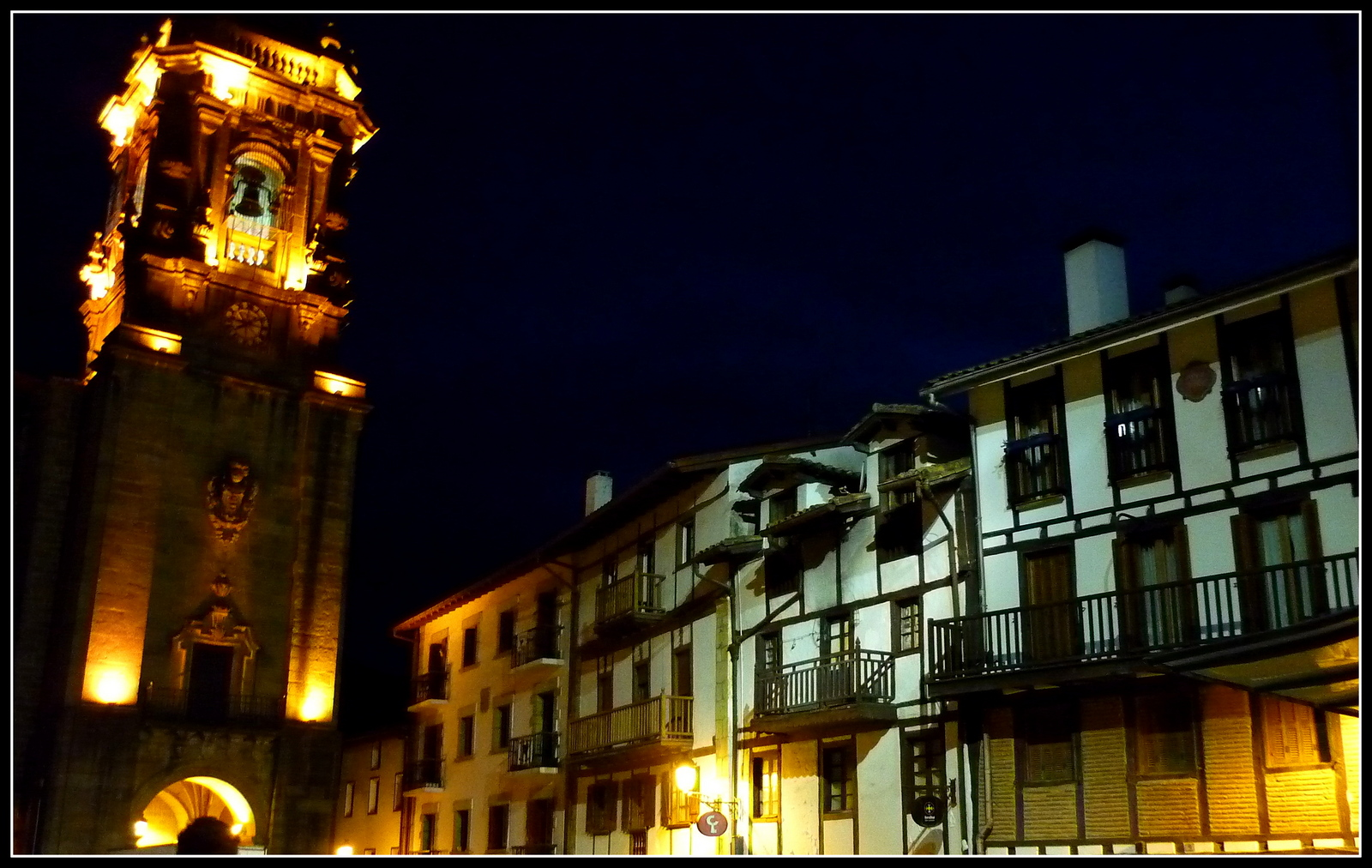 Usurbil at night.